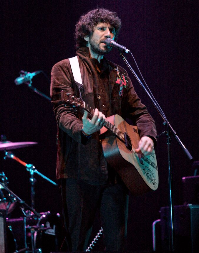 Gruf Rhys performing with the Super Furry Animals at the Summersonic Festival, Tokyo, Japan, 2008.